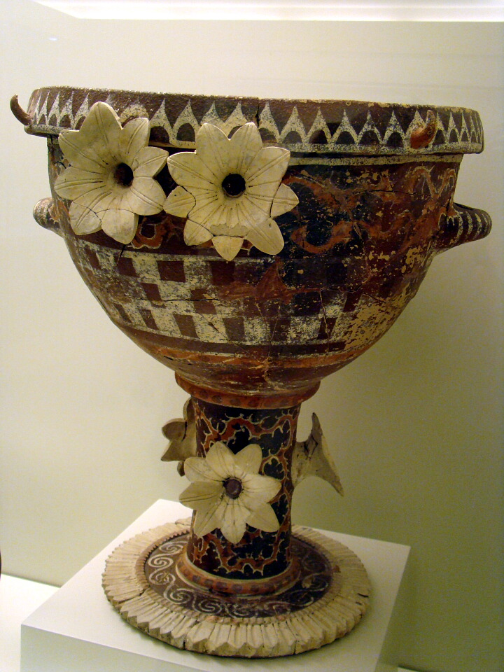 Krater with lavish polychrome and relief decoration from Phaistos. Herakleion Archeological Museum